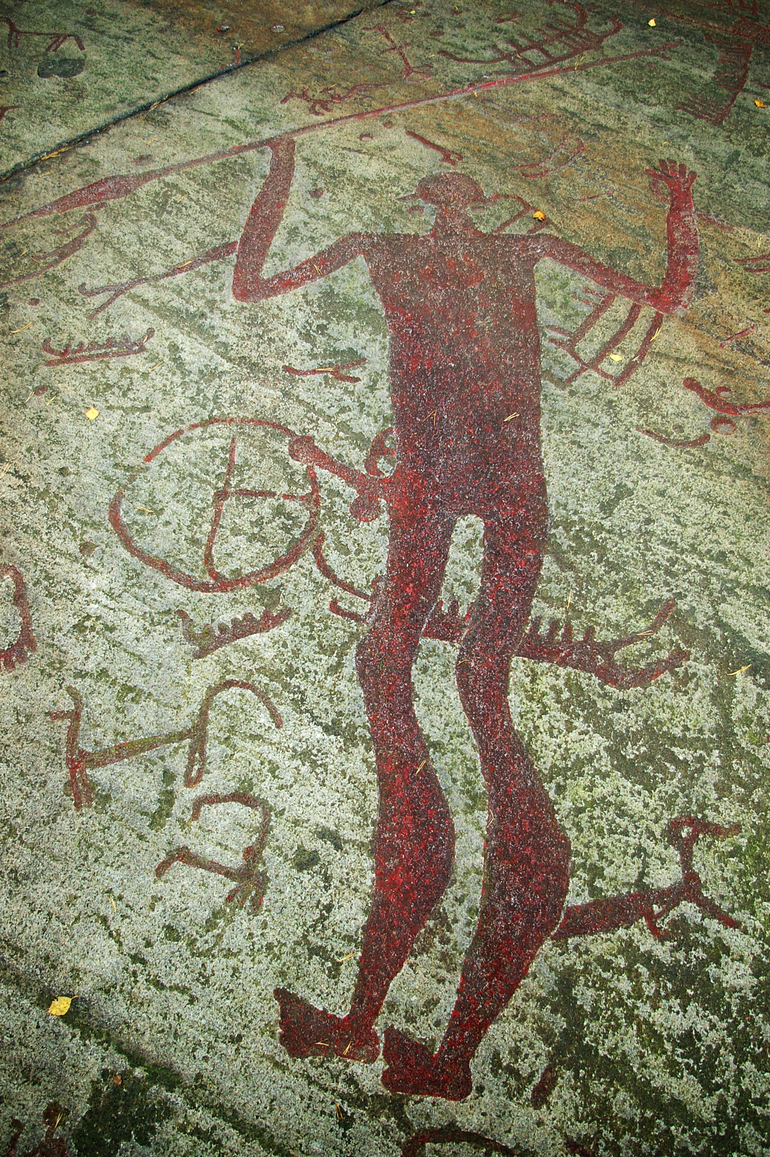 Rock carving area from the bronze age in the parish of Tanum, Bohuslän, a part of Sweden.